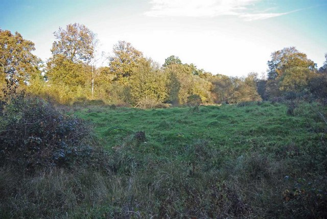 Portingbury Hills was probably an Iron Age defended farmstead there is an earthwork bank and ditch surrounding an area of about 7000 square feet.